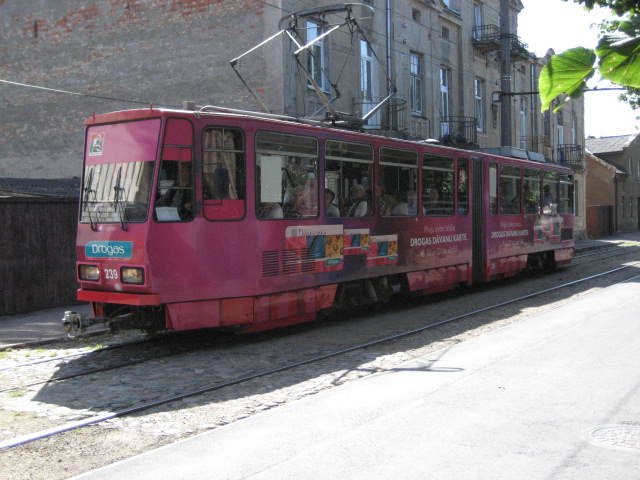 Tatra KT4D Tram 239 in Liepaja, former Gera